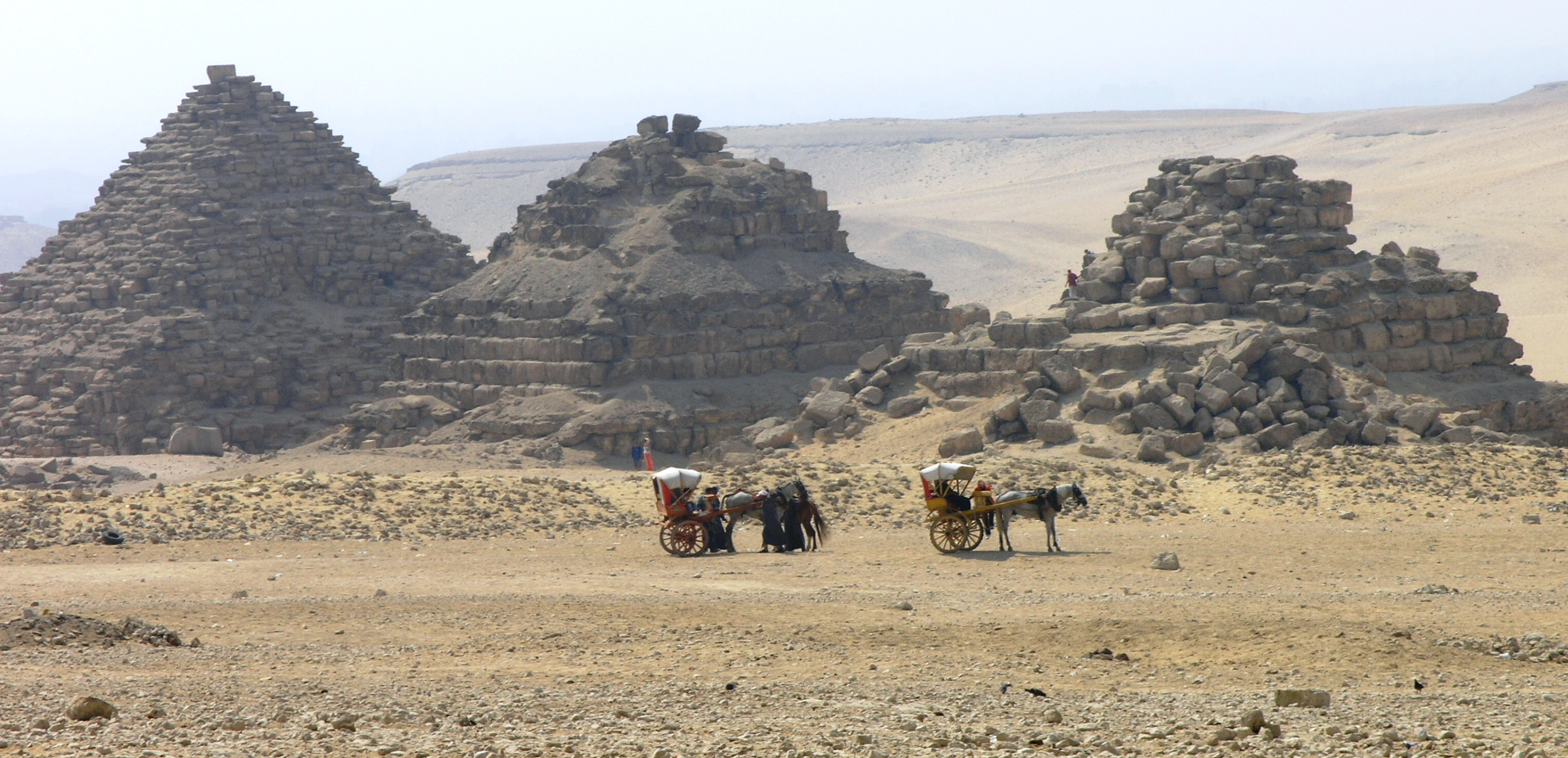 Giza Plateau - horse carriages in front of Queen's Pyramids